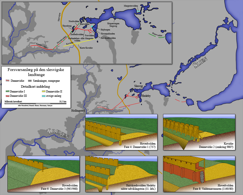 Dannevirke - danish version